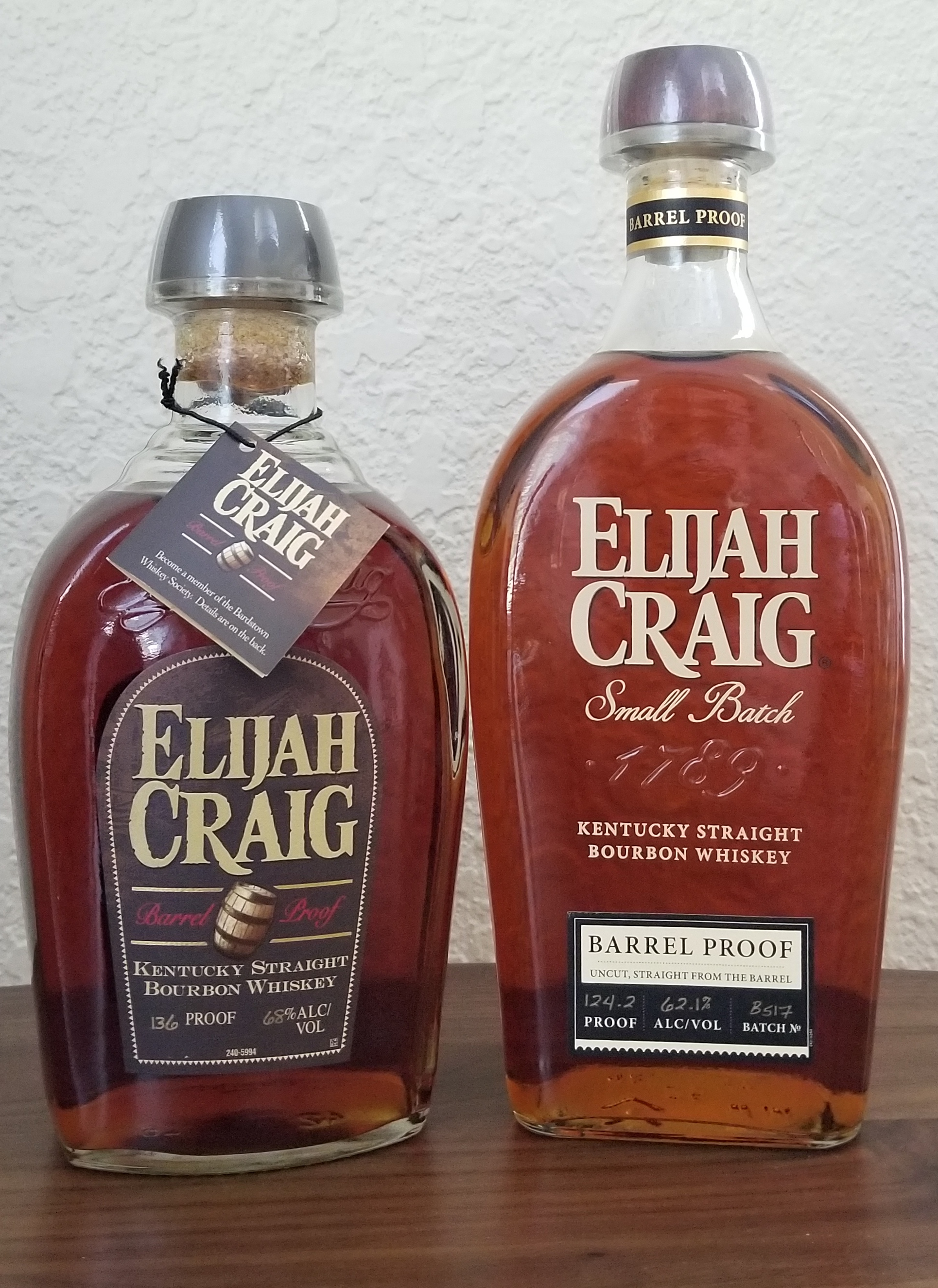 Two Elijah Craig Small Batch Barrel Proof bottlings. The bottling on the left is the old label and then bottling on the right is the new label.